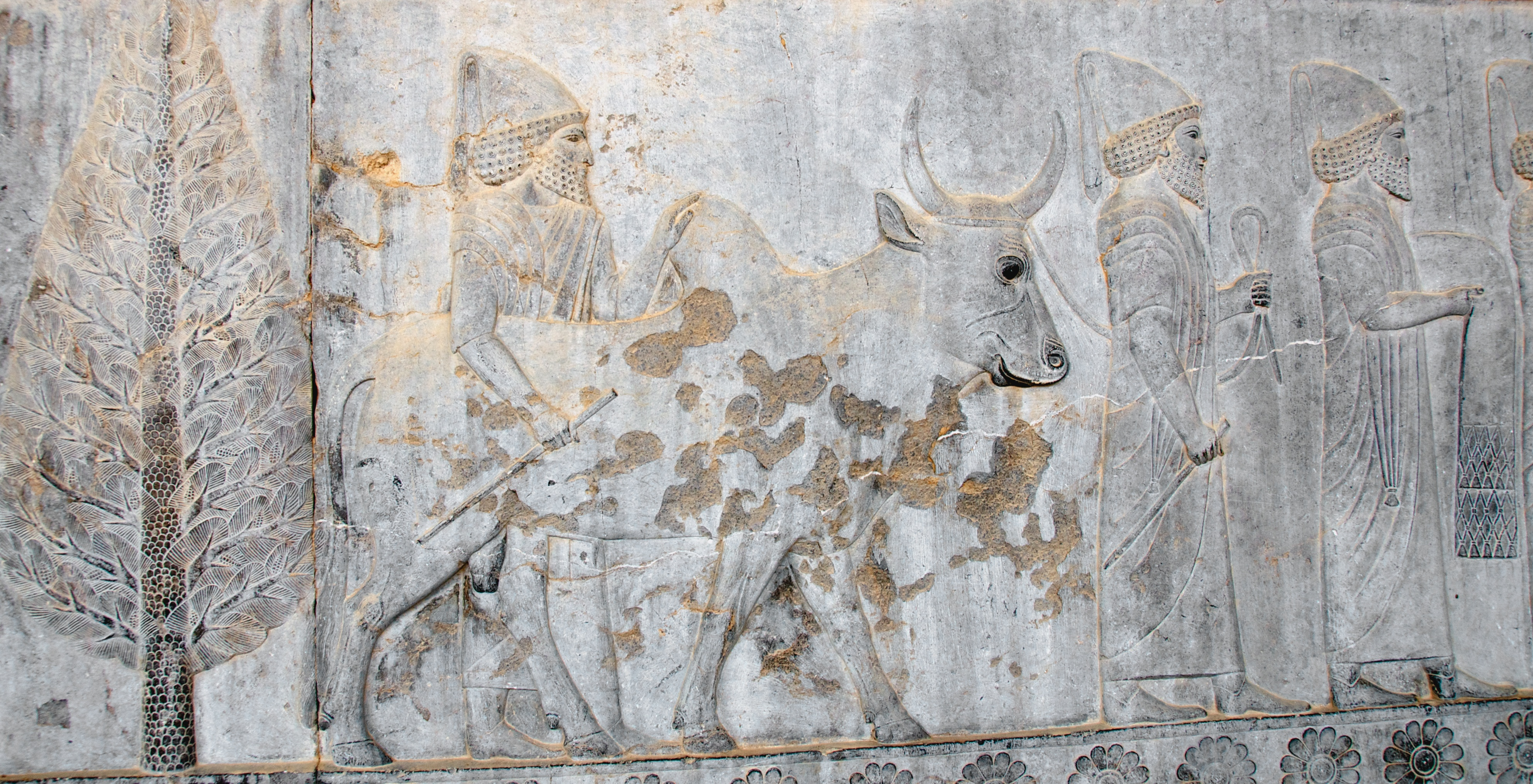 According to the Lonely Planet guide to Iran, "Most impressive of all, however, and among the most impressive historical sights in all of Iran, are the bas-reliefs of the Apadana Staircase on the eastern wall [of the Apadana Palace]." "The panels at the southern end [of the Apadana Staircase] are the most interesting, showing 23 delegations bringing their tributes to the Achaemenid king." "This rich record of the nations of the time ranges from the Ethiopians in the bottom left center, through a climbing pantheon of, among other peoples, Arabs, Thracians, Indians, Parthians and Cappadocians, up to the Elamites and Medians at the top right." According to Donald N. Wilber's book Persepolis, The Archaeology of Parsa, Seat of the Persian Kings, this panel "shows the Babirush, or Babiruviya (Babylonians), who bear cups and a woven, fringed piece of cloth and present a humped bull. They are distinguished by their conical, tassled caps." Persepolis, Iran